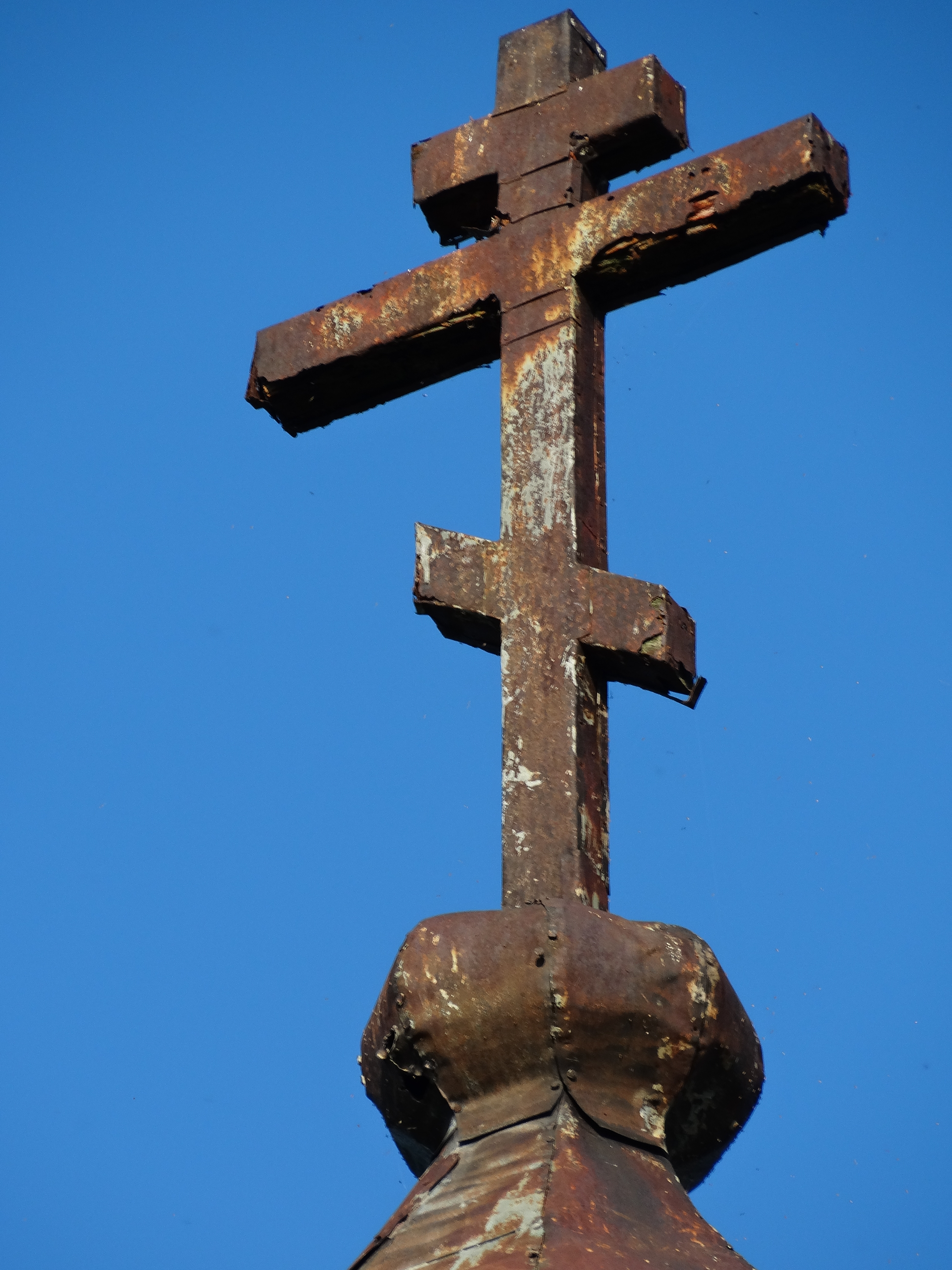 Tower cross, Church of Old Believers in Rūsteikiai, Zarasai district, Lithuania